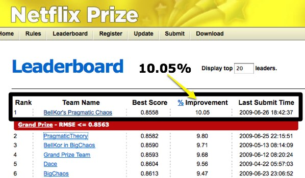 netflix